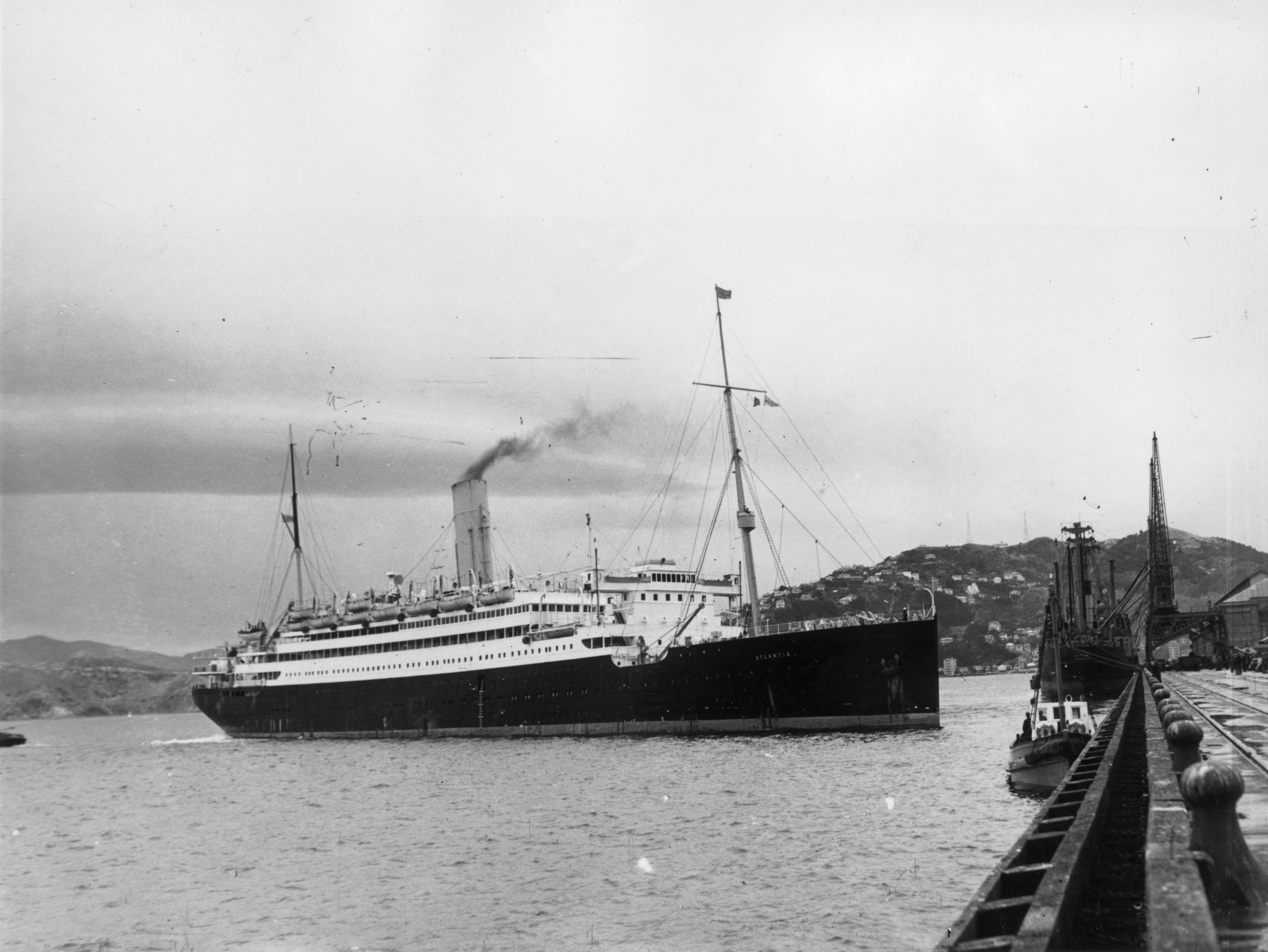 Photographer: William Hall Raine The ship Atlantis in Wellington Harbour, 1951 Reference number: 1/4-020548-G Gelatin dry plate negative Photographic Archive, Alexander Turnbull Library from the